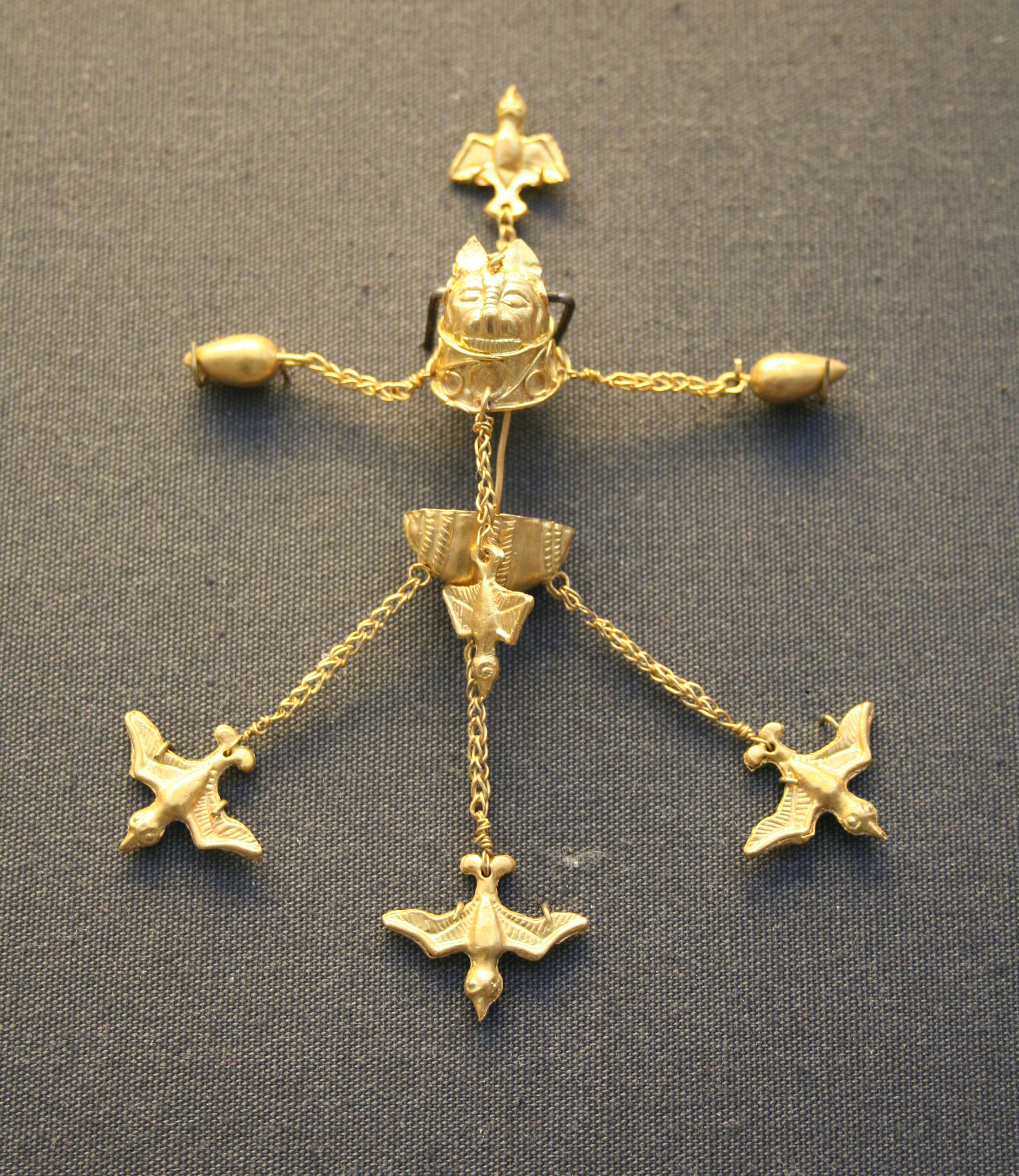 Part of the Aegina treasure. This golden ornament is based on a lions head. It is connected with a hollow, semicircular receptacle by a pin. From the lions collar four short chains are hanging, two are ending in eggs, two in figurines of flying birds, probably ducks. From the receptacle three more bird figurines are hanging, identical to each other but different from the upper birds. The pin originally held a connecting piece between the head and the receptacle, it was make from perishable material and is lost. British Museum Catalogue Jewellery #746. Description after Higgins: The Aegina Treasure, 1979